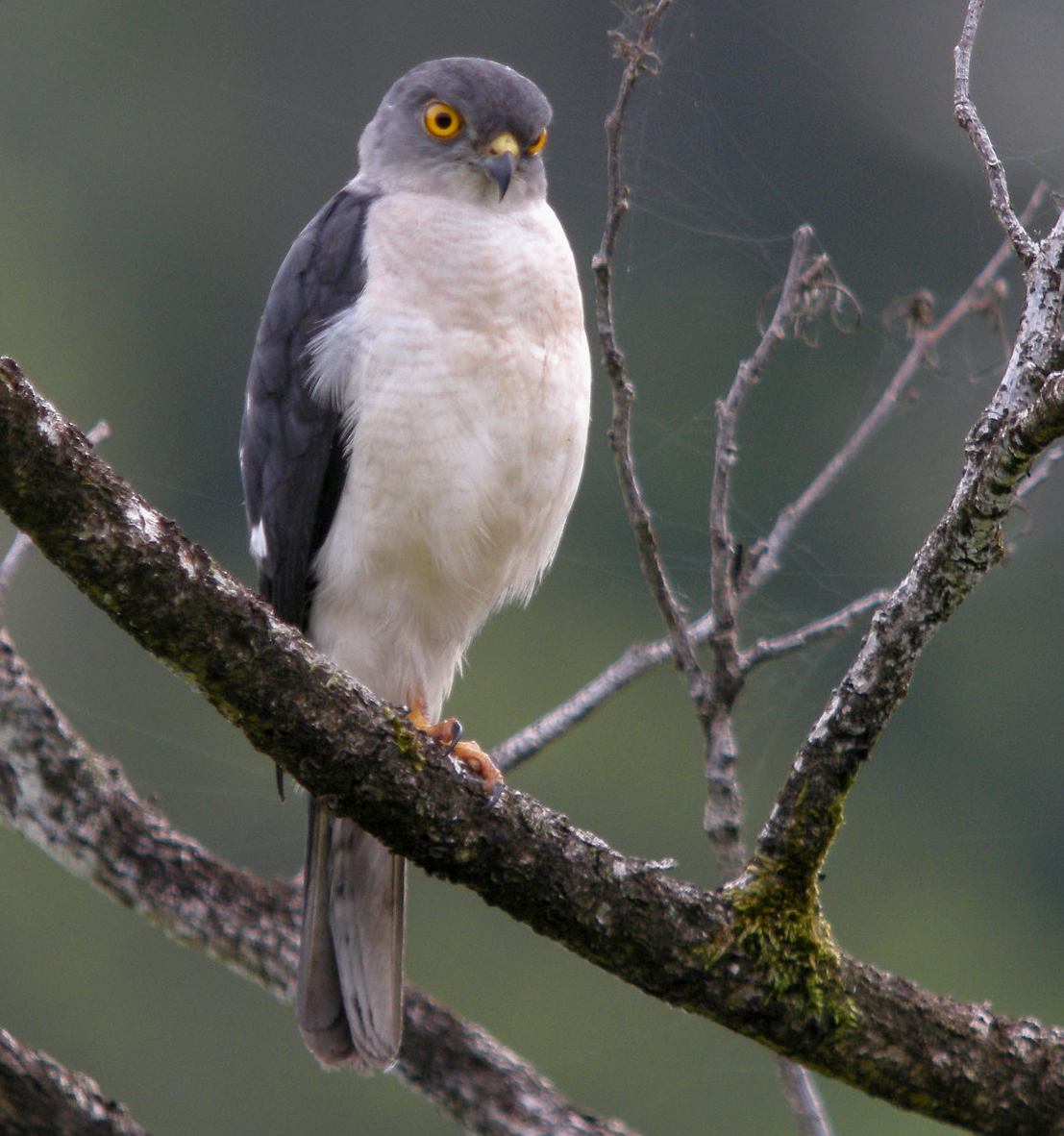 Frances's Sparrowhawk, Masoala National Park, Madagascar